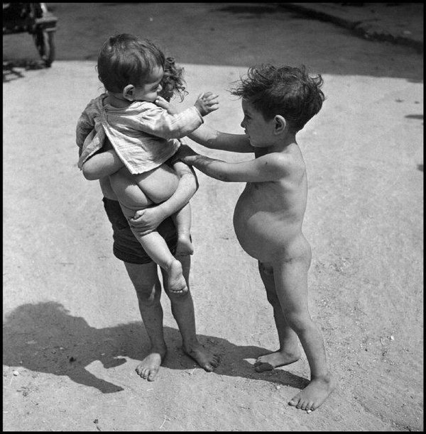 “Children In Naples, Italy”. Poor children. Photographed by Lieutenant Wayne Miller, July 1944. U.S. Navy Photograph, now in the collections of the National Archives.